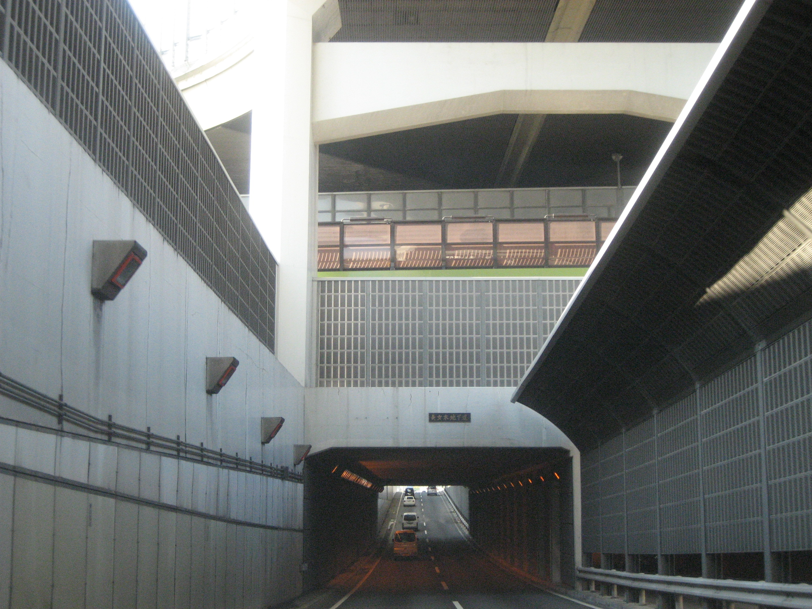 National highway Route-17 Shin-Omiya bypass in Bijyogi, Toda-City, Saitama-pref. Japan